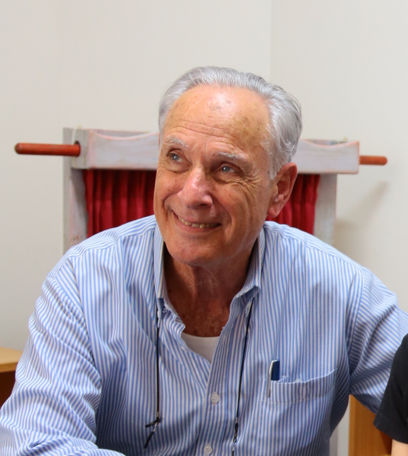 Avihu Ben-Nun, In a family gathering, 2015